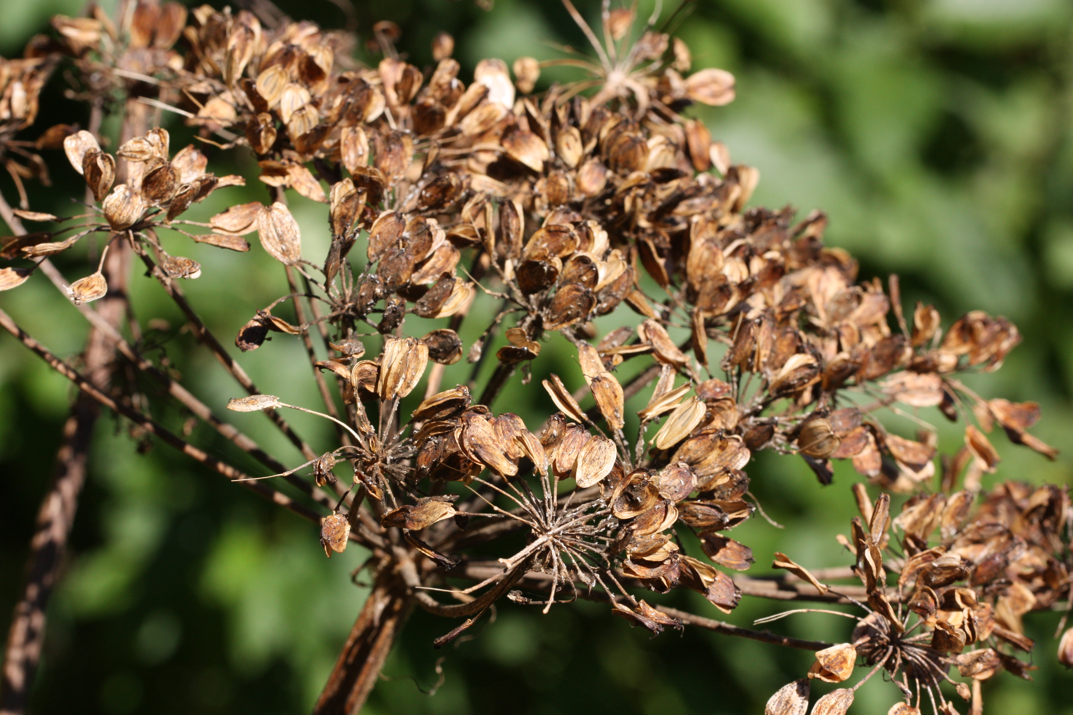 Common Cow-parsnip, American Cow-parsnip